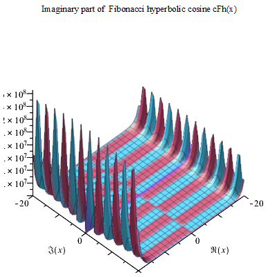 Fibonacci hyperbolic cosine imaginary part 3D